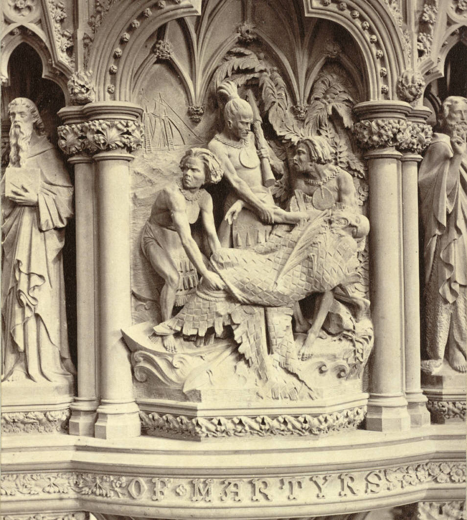 Collection: A. D. White Architectural Photographs, Cornell University Library Accession Number: 15/5/3090.01126 Title: Exeter Cathedral. The Martyrs' Pulpit (Bishop Pattison Memorial Pulpit) Photographer: Carl Norman (British, active ca. 1870-ca. 1890) Sculptor: Sir George Gilbert Scott (English, 1811-1878) Sculpture Date: 1870 Building Date: ca. 1300-ca. 1499 Photograph date: ca. 1870-ca. 1885 Location: Europe: United Kingdom; Exeter Materials: albumen print Image: 6 3/8 x 4 in.; 16.1925 x 10.16 cm Style: Victorian Provenance: Gift of Andrew Dickson White Persistent URI: There are no known copyright restrictions on this image. The digital file is owned by the Cornell University Library which is making it freely available with the request that, when possible, the Library be credited as its source. We had some help with the geocoding from Web Services by Yahoo! This image is from the Cornell University Library's The Commons Flickr stream. The Library has determined that there are no known copyright restrictions. This image was taken from Flickr's The Commons. The uploading organization may have various reasons for determining that no known copyright restrictions exist, such as: The copyright is in the public domain because it has expired; The copyright was injected into the public domain for other reasons, such as failure to adhere to required formalities or conditions; The institution owns the copyright but is not interested in exercising control; or The institution has legal rights sufficient to authorize others to use the work without restrictions. More information can be found at Please add additional copyright tags to this image if more specific information about copyright status can be determined. See Commons:Licensing for more information.No known copyright restrictionsNo restrictions